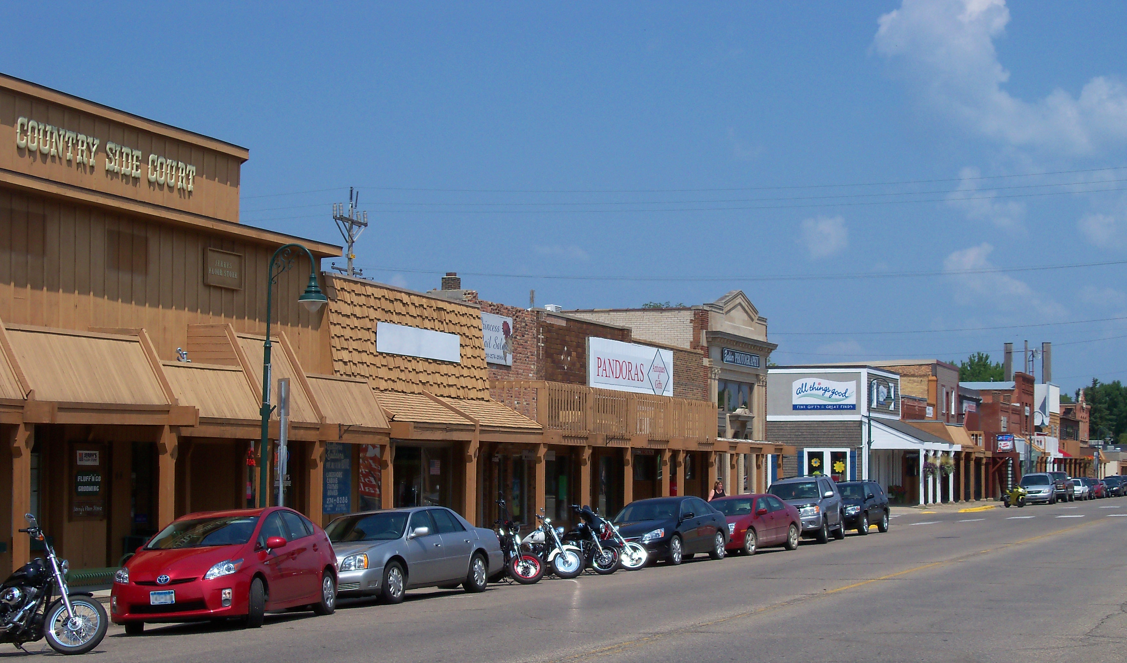 Downtown Annandale, Minnesota, USA.